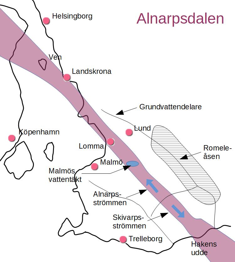 Map of Alnarpsdalen and Alnarpsströmmen in Scania, Sweden.